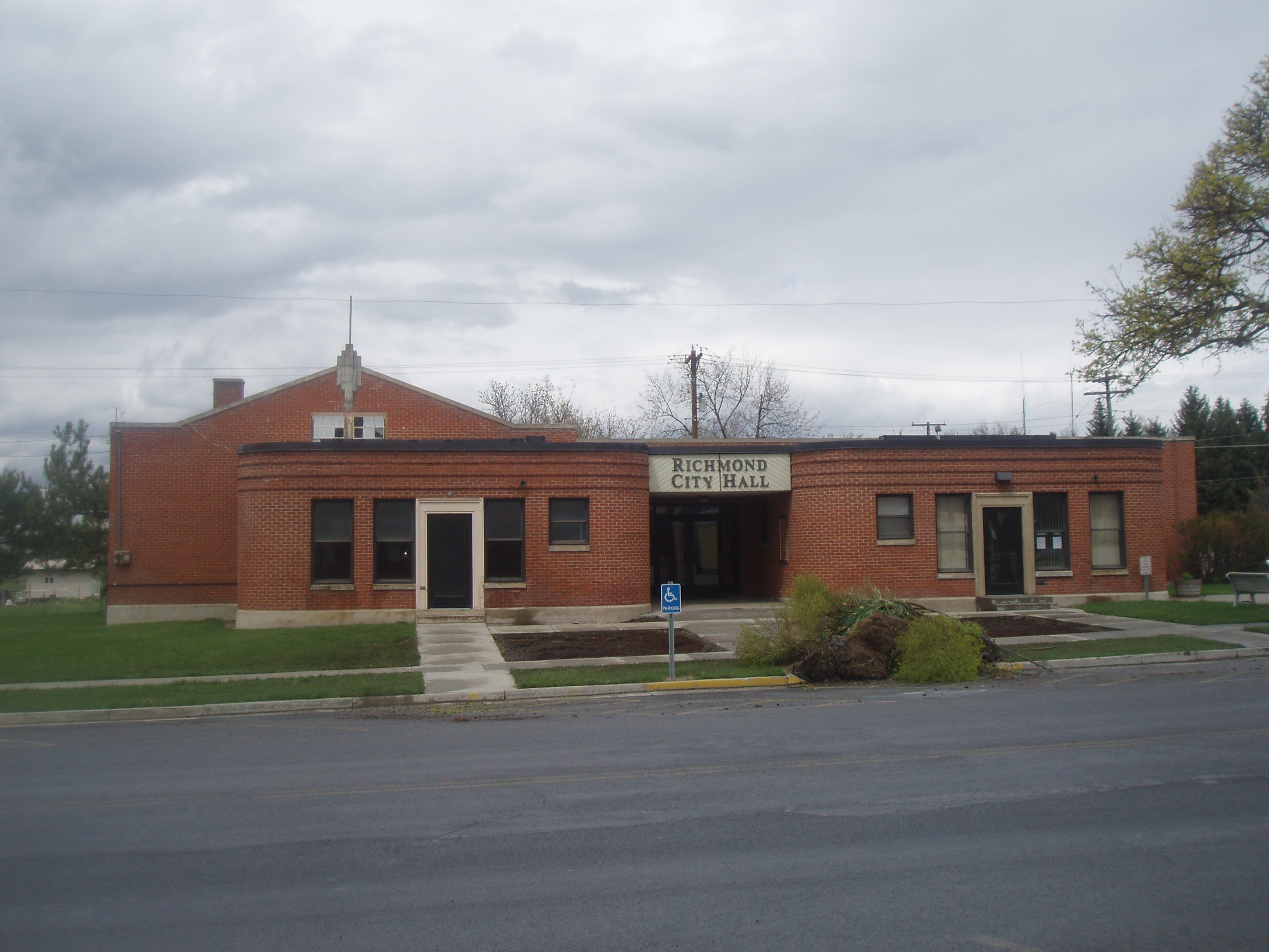 The historic Richmond Community Building houses city offices for Richmond, Utah, United States.